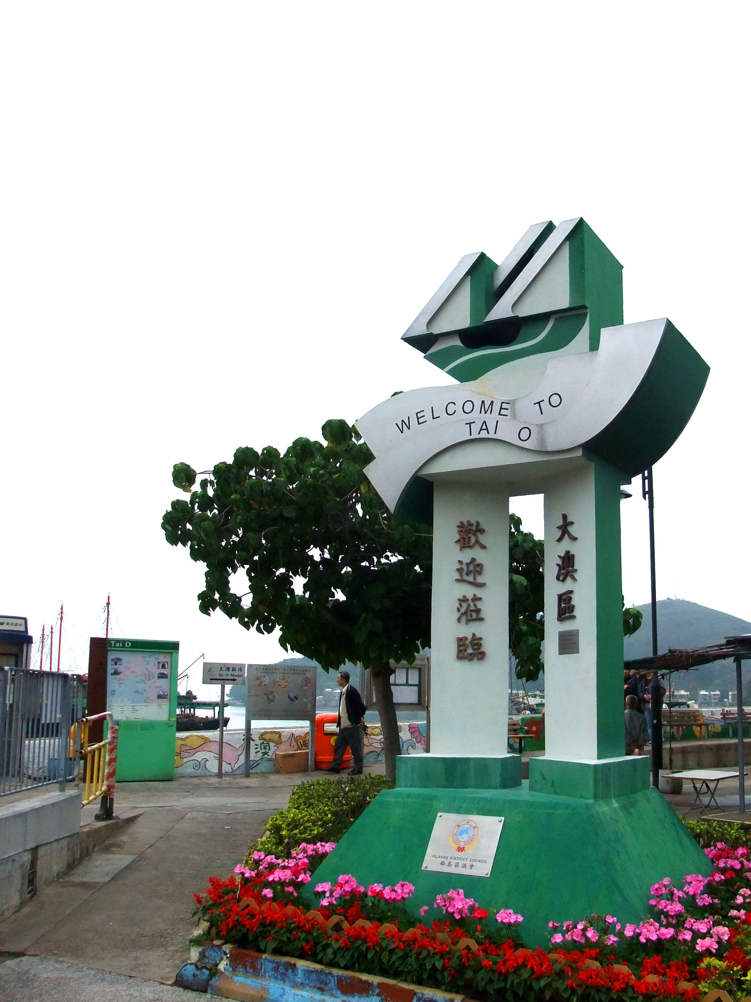 Welcome sign set up by the Islands District Council at Tai O, Lantau Island, Hong Kong.